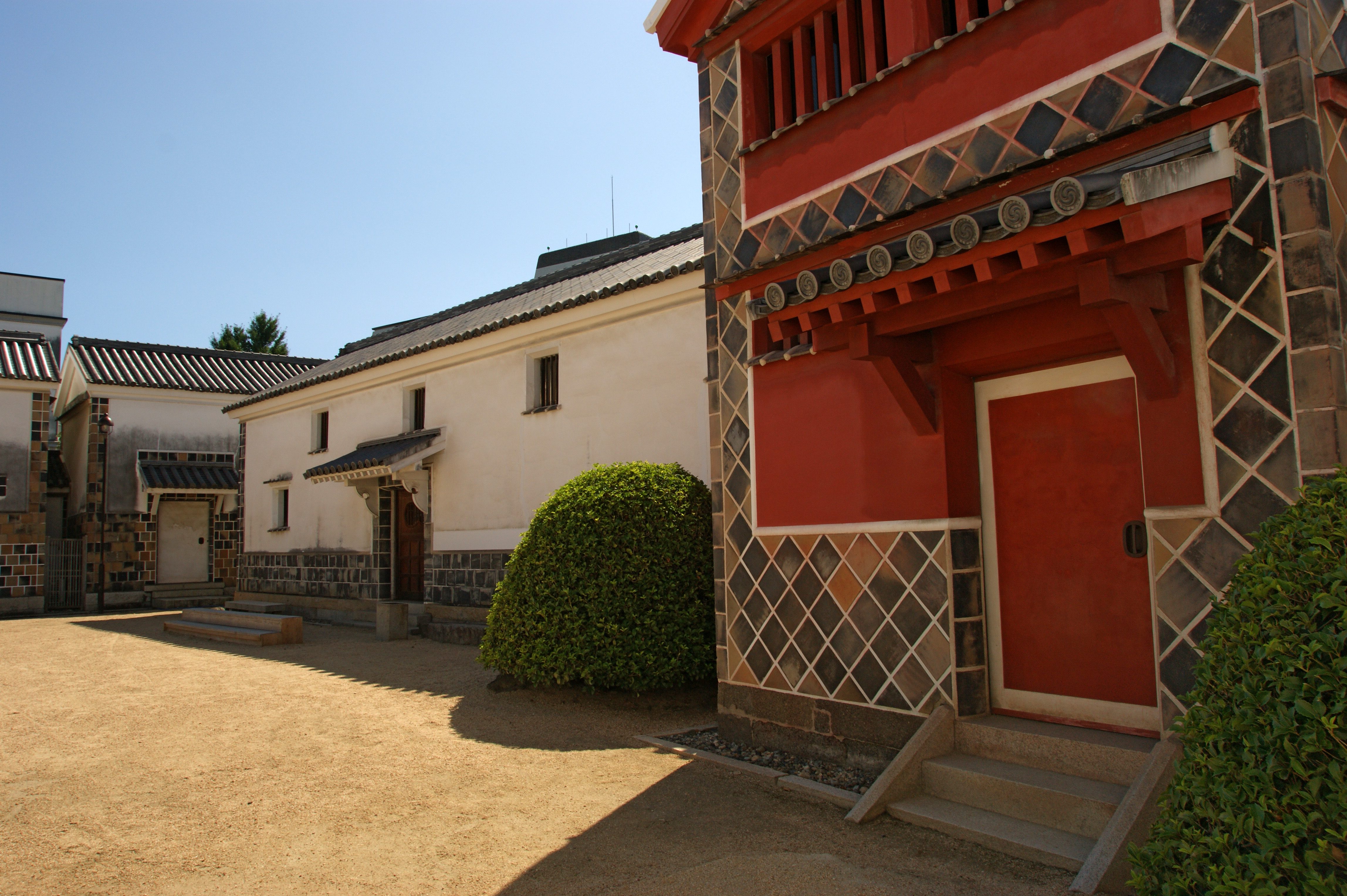 Ōhara Art Museum in Kurashiki, Okayama prefecture, Japan